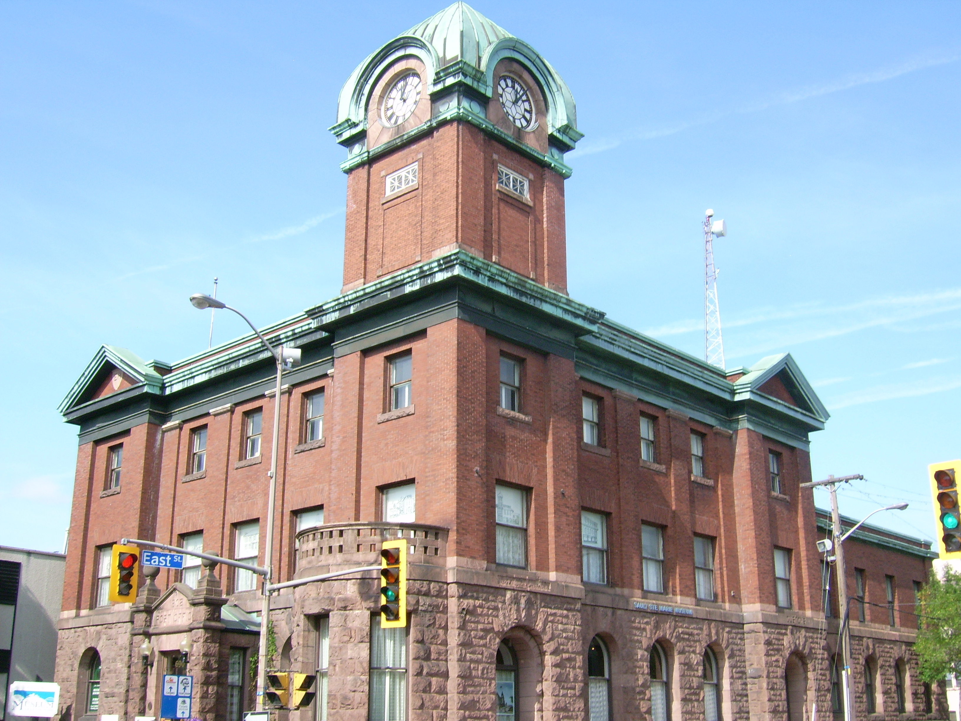 Sault Ste. Marie Museum southeast corner (former Post Office), Sault Ste. Marie, Ontario.